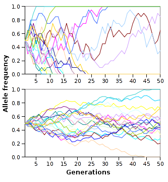 User:Graft made it from scratch.